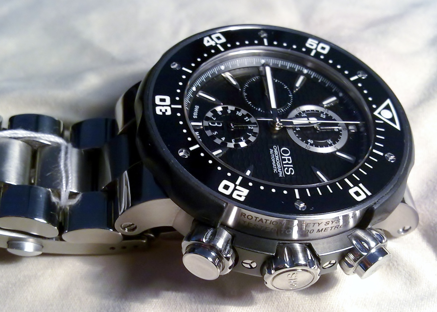 The ORIS ProDiver Chronograph is a 1000 metres water resistant automatic dive watch,Featuring titanium case and bracelet ( additional rubber strap included )